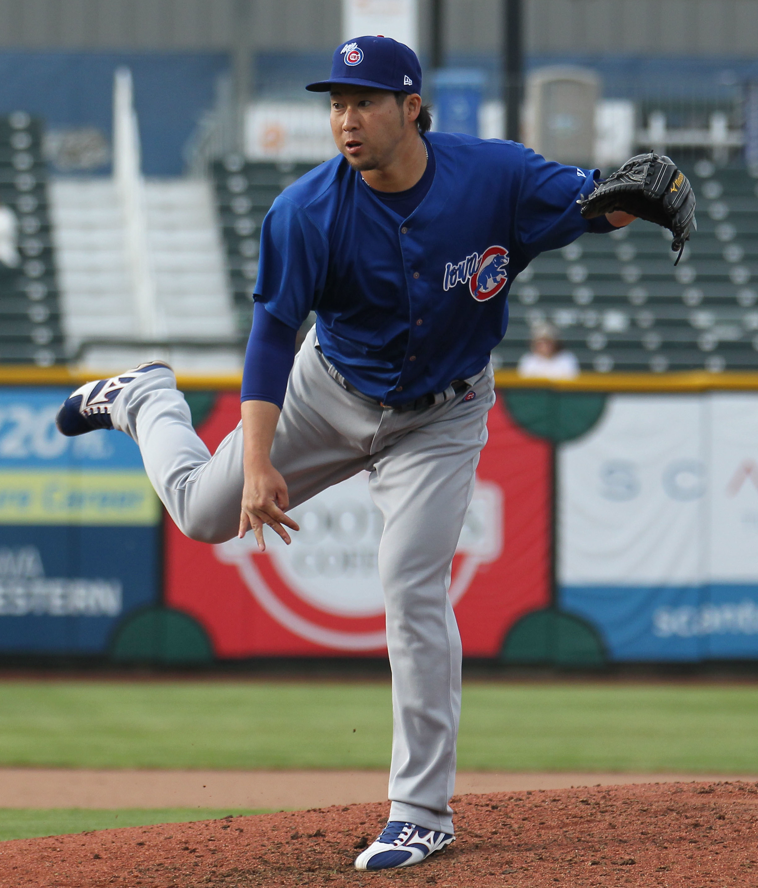 Junichi Tazawa delivers a pitch for the Iowa Cubs during a 2019 game at Werner Park in Nebraska.